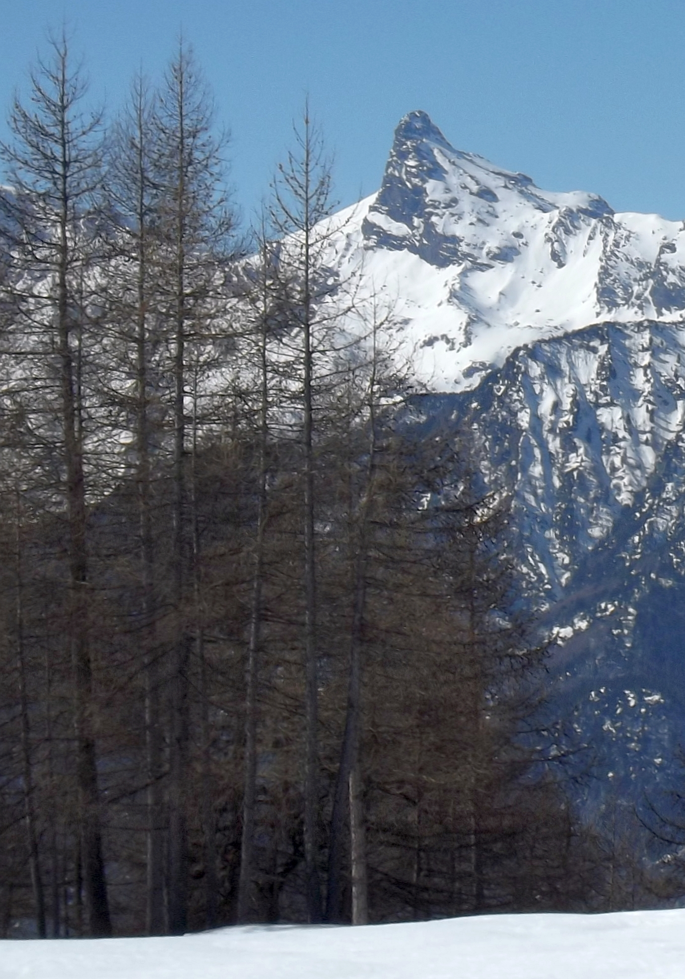 Mont Avic from col Tzucore (Émarèse, AO, Italy)Føroyskt: Le Mont Avic depuis le col Tzucore (Émarèse, AO, Italie)